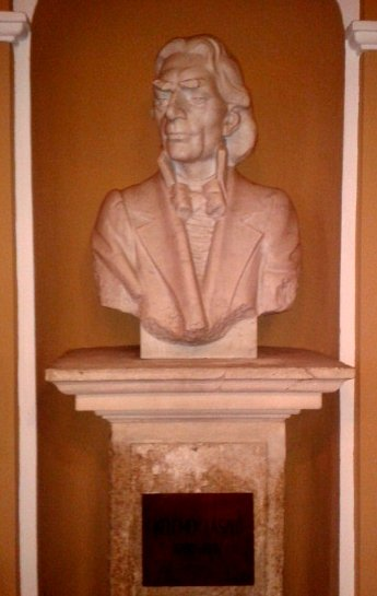 Bust of László Kelemen theatre director (1760-1814), in Várszínház (Court Theatre of Buda), in Buda Castle)